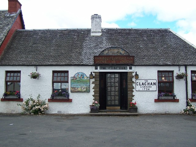 the Clachan,Drymen